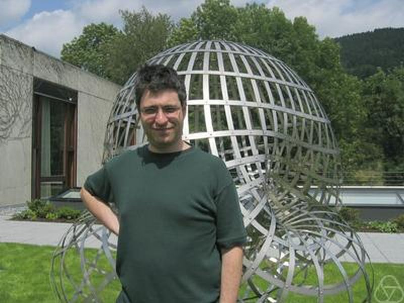 Mark Kisin, Oberwolfach 2007